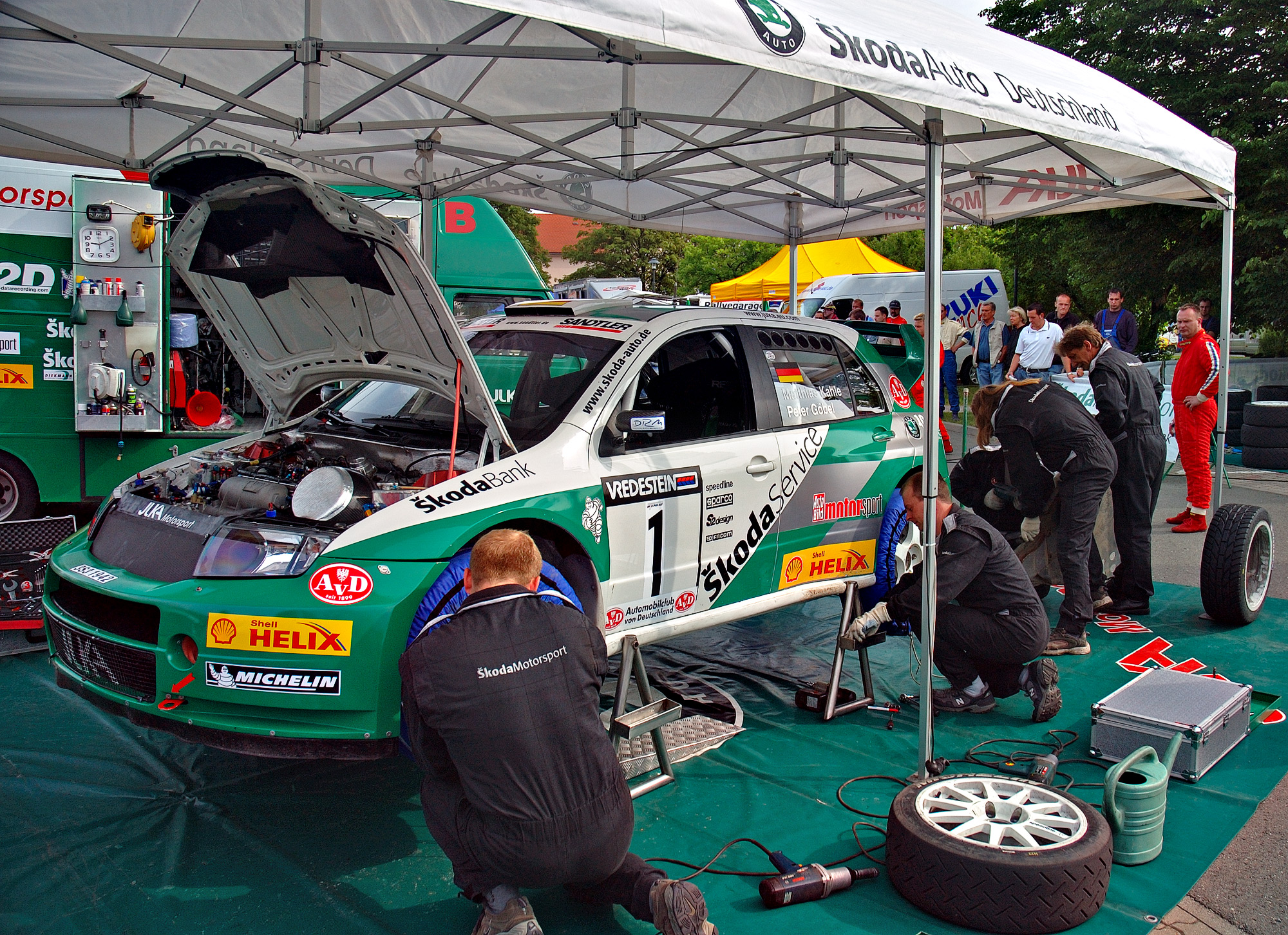 This image shows a Skoda Fabia WRC during the car service between the races. This photo has been taken during the Saxony rally racing 2005 in Zwickau (Germany).